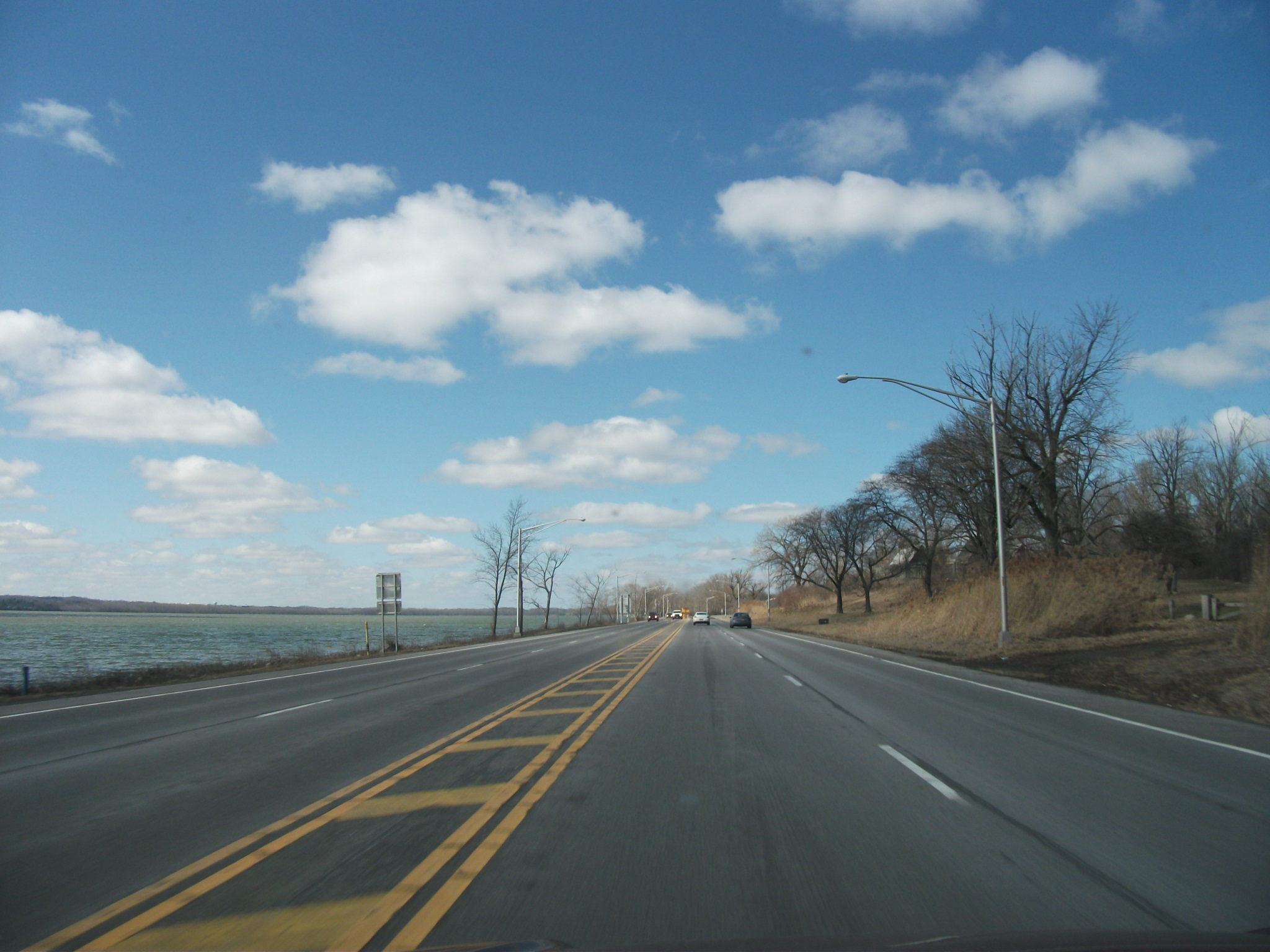 New York State Route 370 - Onondaga Lake entering Liverpool, New York